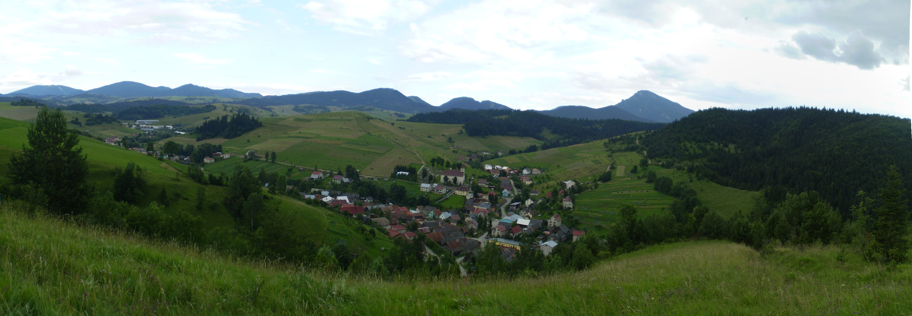 willage Pucov